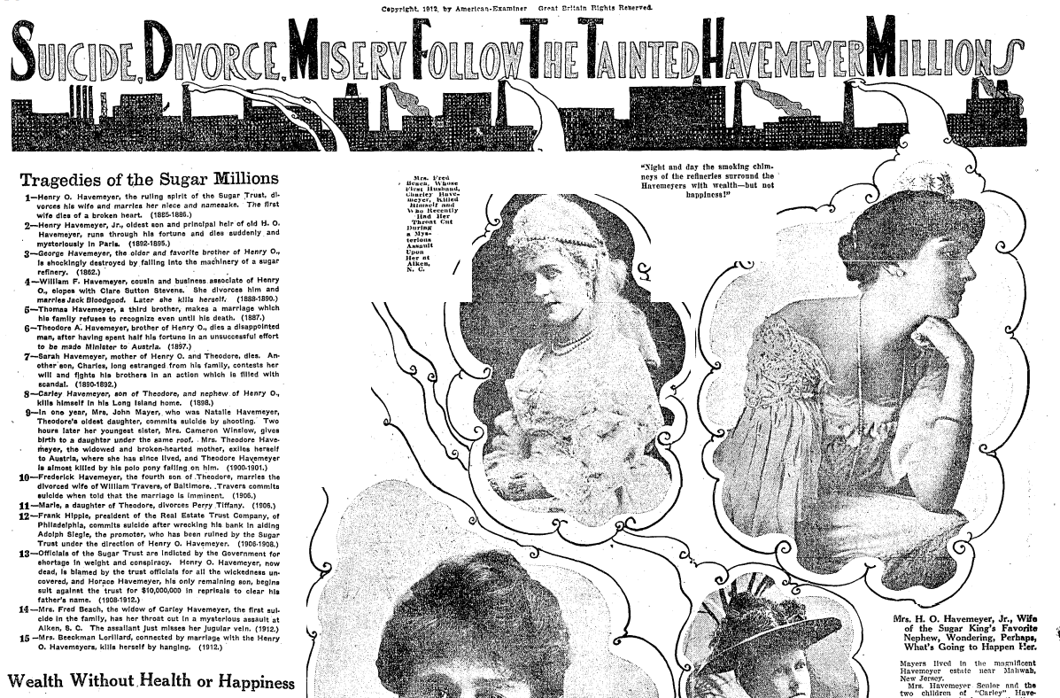 Article about the Havemeyers.